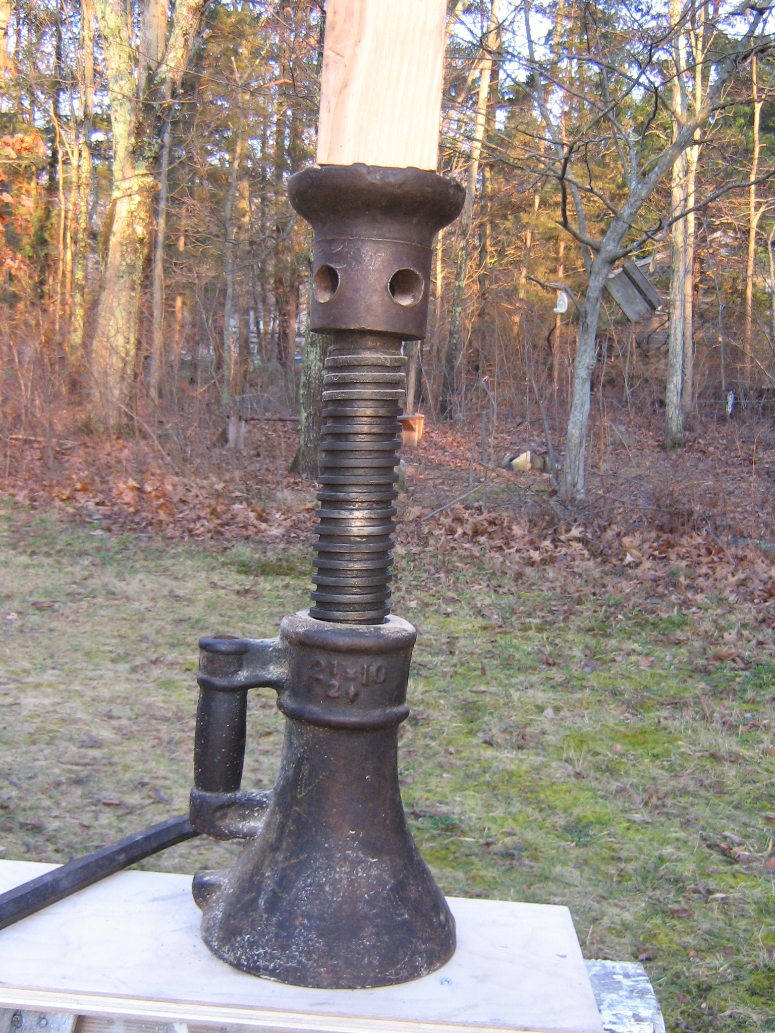 Photographer is Johnalden Description: A fully extended house jack. Taken On: 1/6/07 Source: Photo was taken in Johnalden's yard.